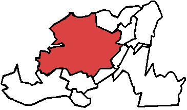 Maps based on images by Earl Warren, from the 2007 elections